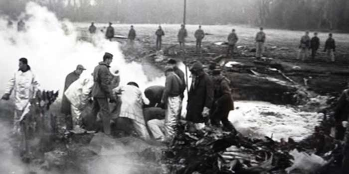 The crash site near Goldsboro, N.C., where two nuclear weapons fell when a B-52 crashed in 1961.